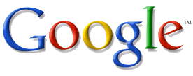 Transparent Google Logo